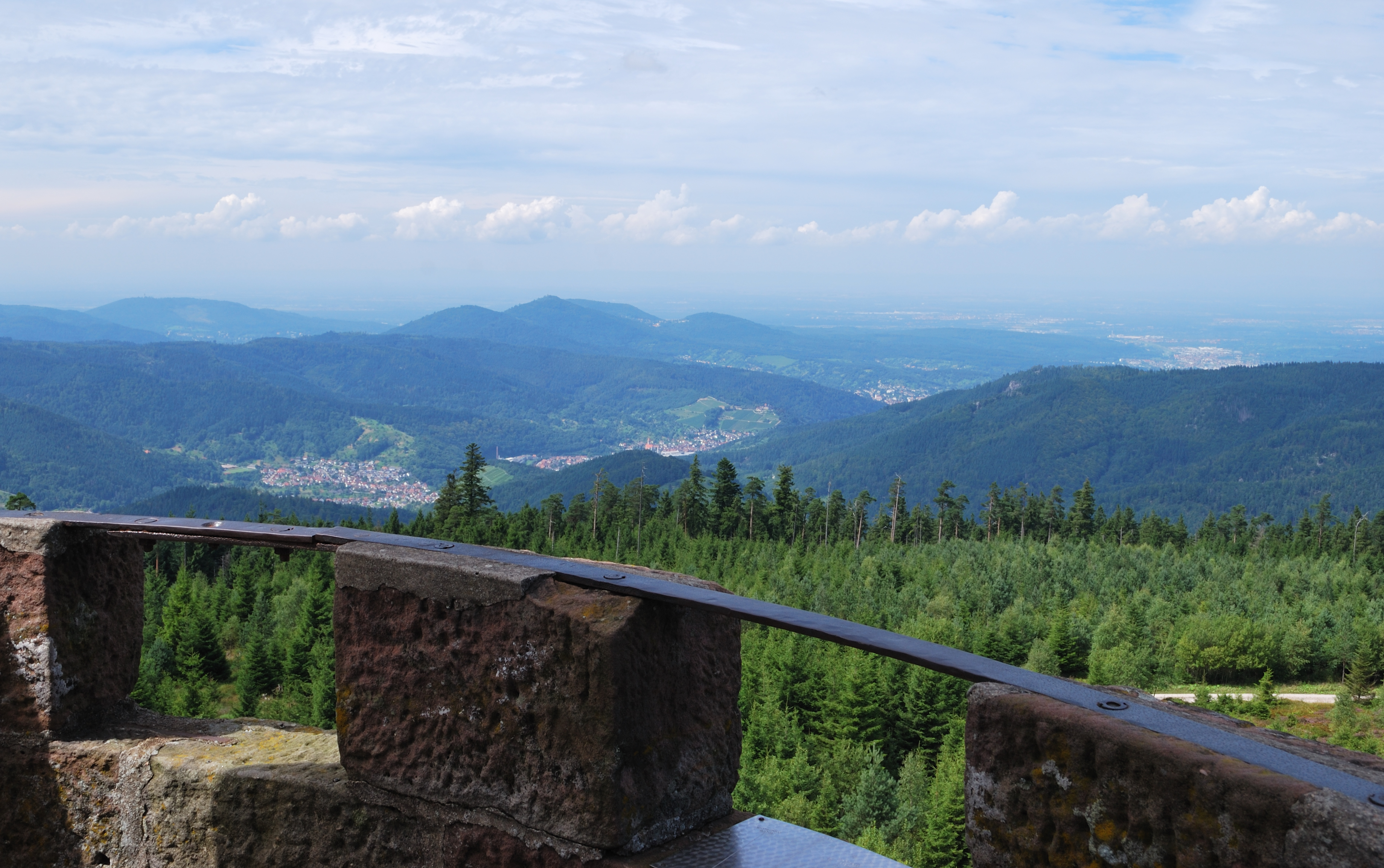 View from the Hohlohturm on the Hohloh into the Murg valley. Northern Black Forest in Germany.